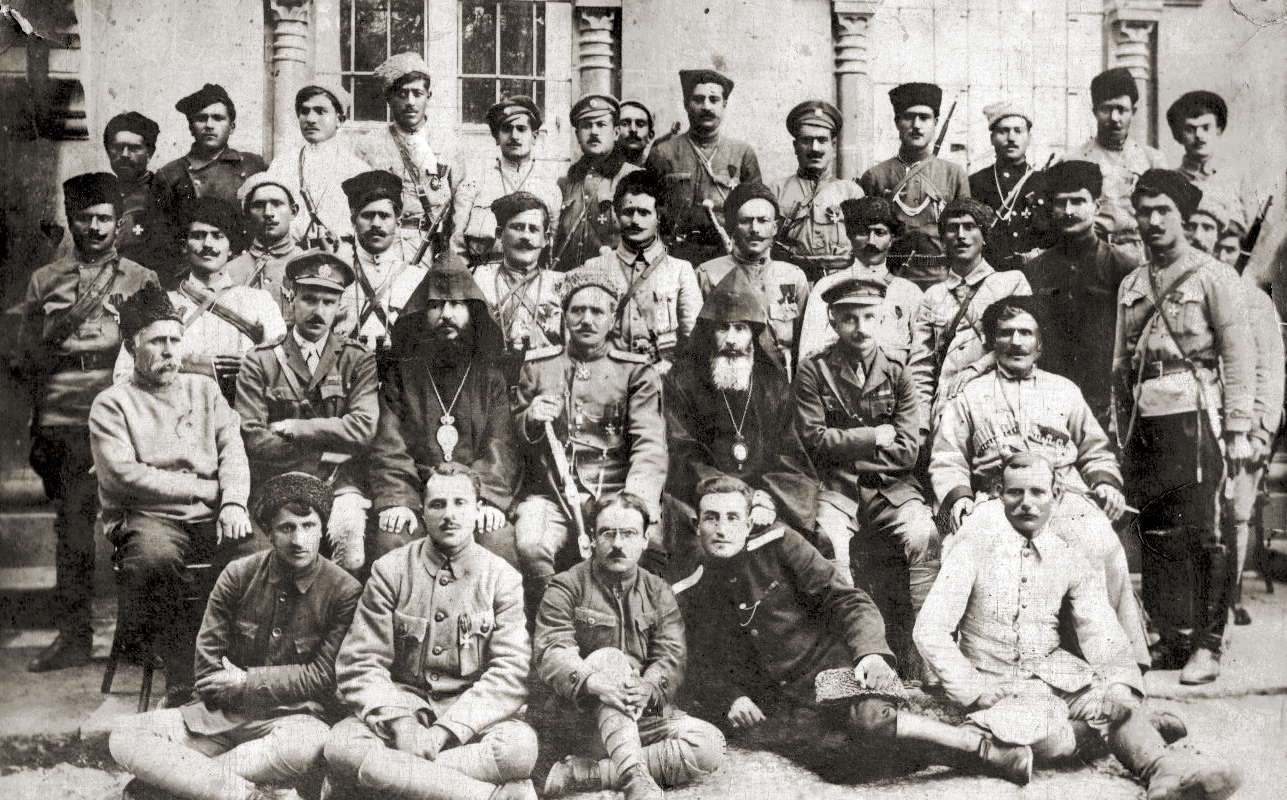 General Andranik in Ejmiatsin, 1919